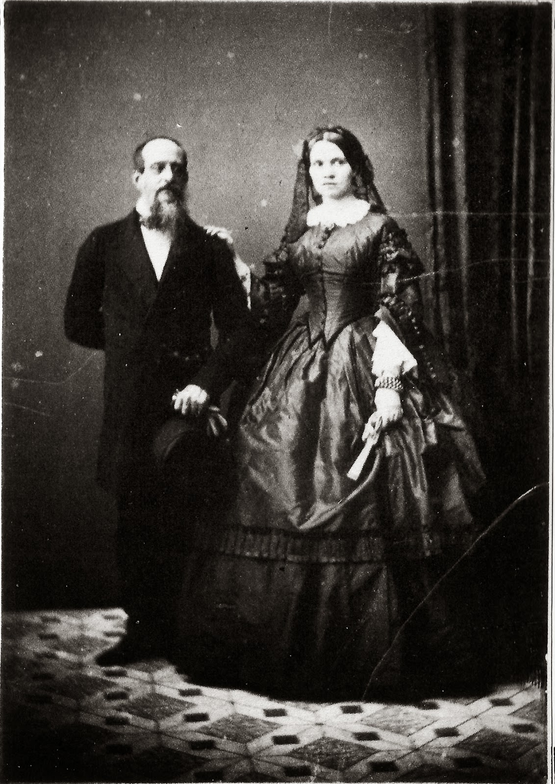 King Miguel I of Portugal with his wife Adelheid of Löwenstein-Wertheim-Rosenberg